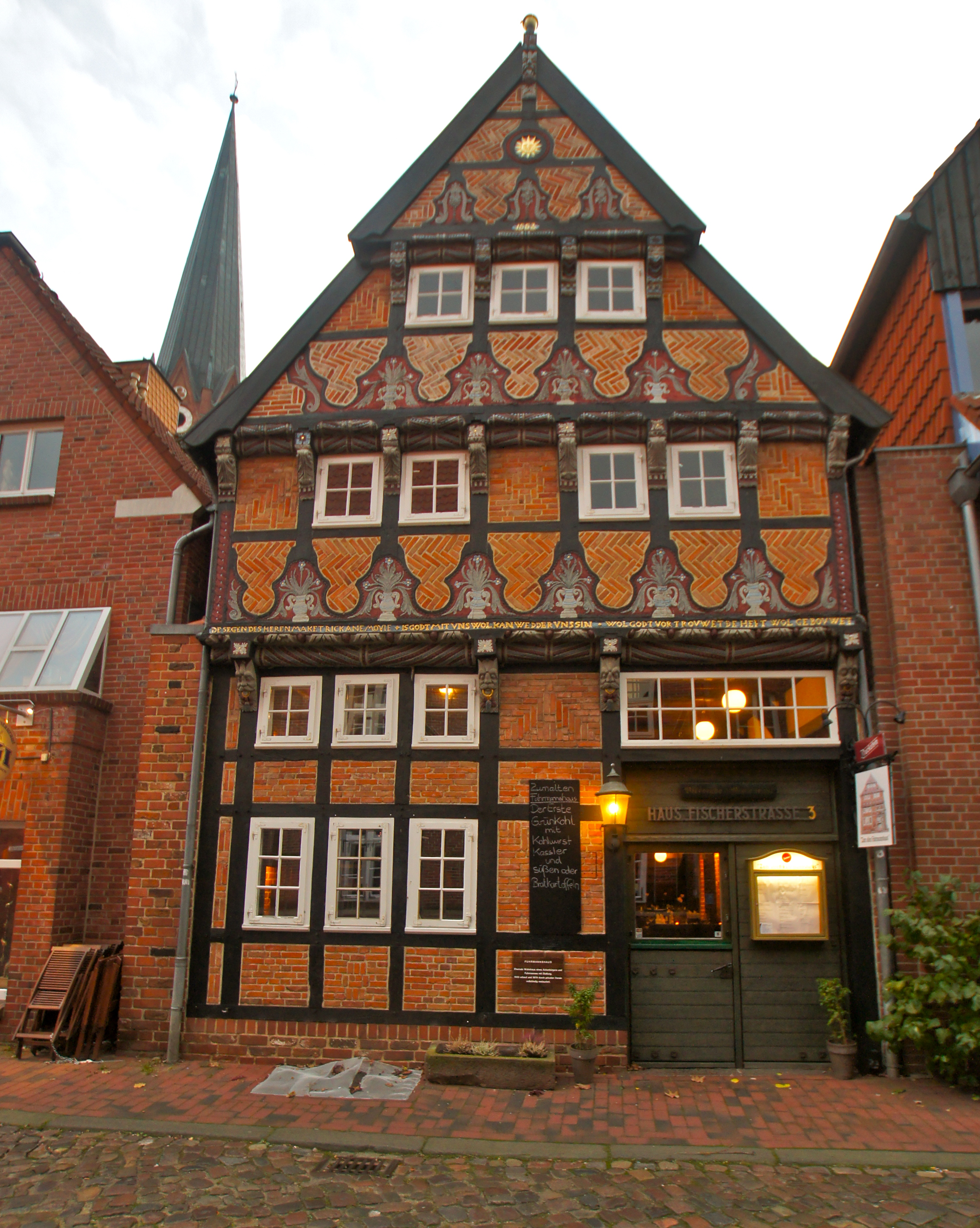 Buxtehude, Germany: The Fohrmannshuus